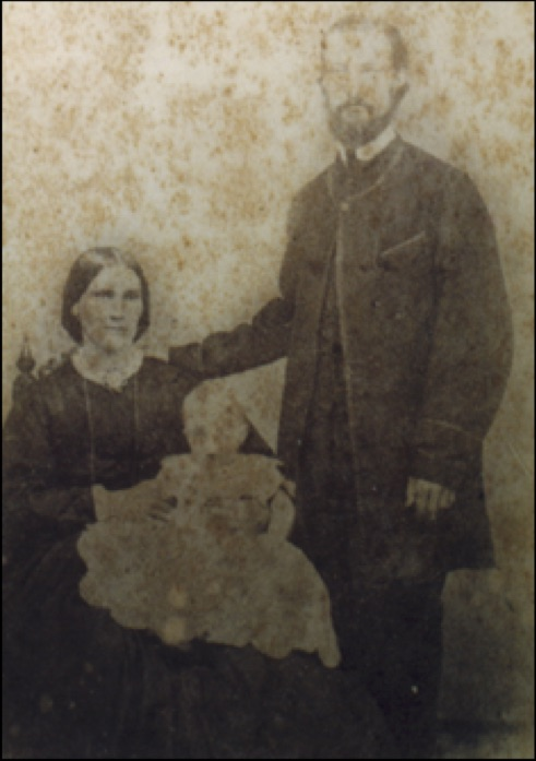 Historic photograph. Only known image of Henry Joseph Curran and Anne Lodge. The baby is believed to be their daughter, Ida. Taken in Goulburn, NSW, probably in 1873, just before Curran moved to Boorroowa to establish a newspaper